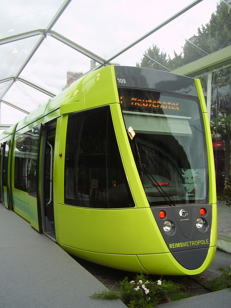 Replica of incoming tramway in Rheims, France